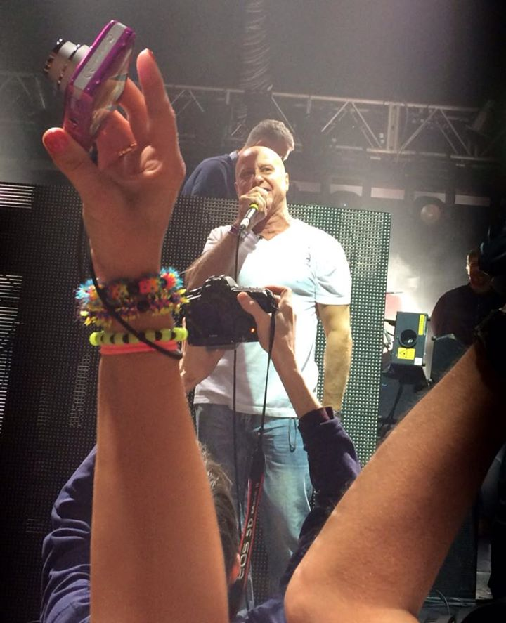 Graham Gold hosting the Peach Camden 2014 Reunion